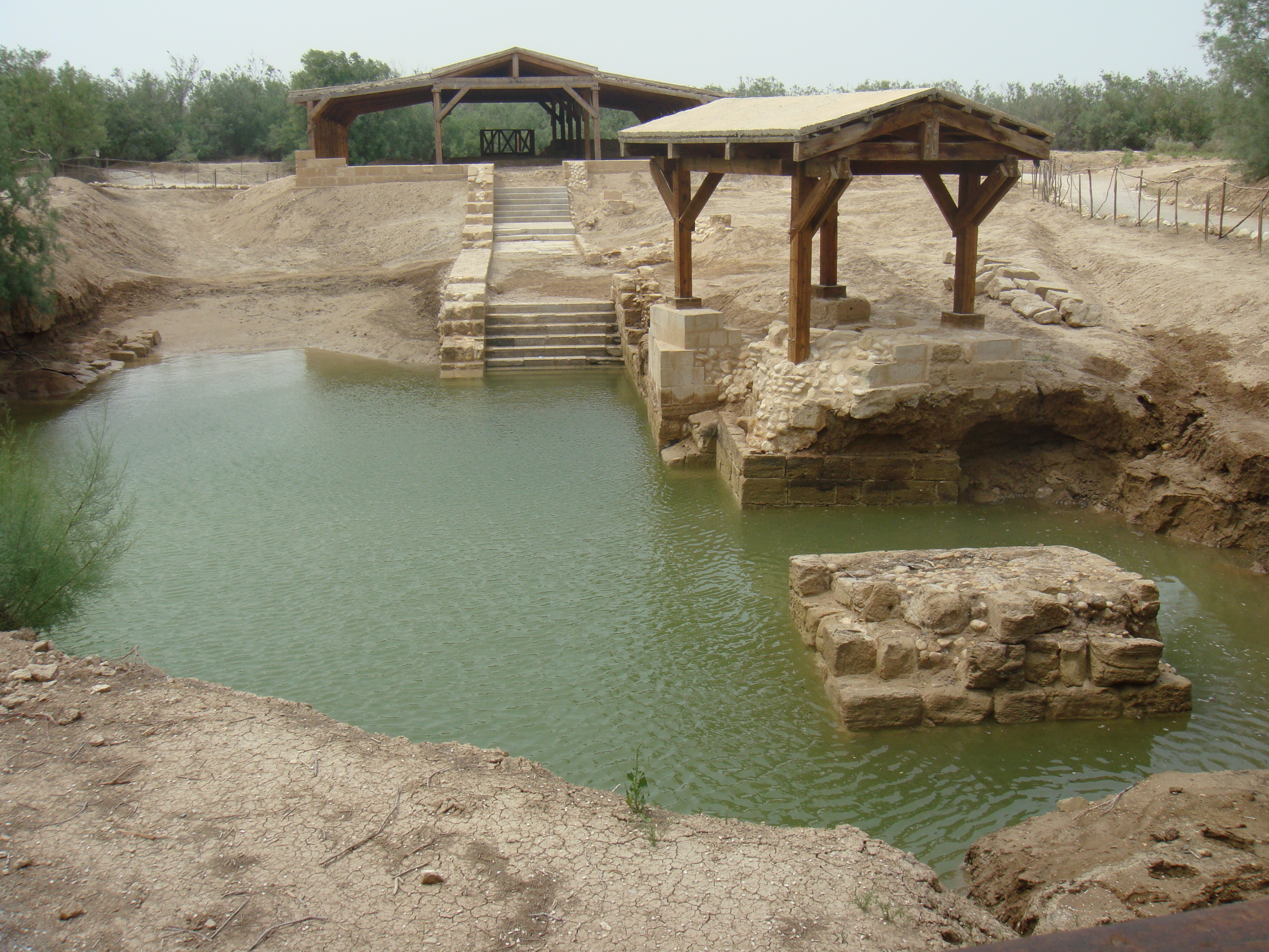 The supposed location where John baptized Jesus Christ East of the River Jordan.